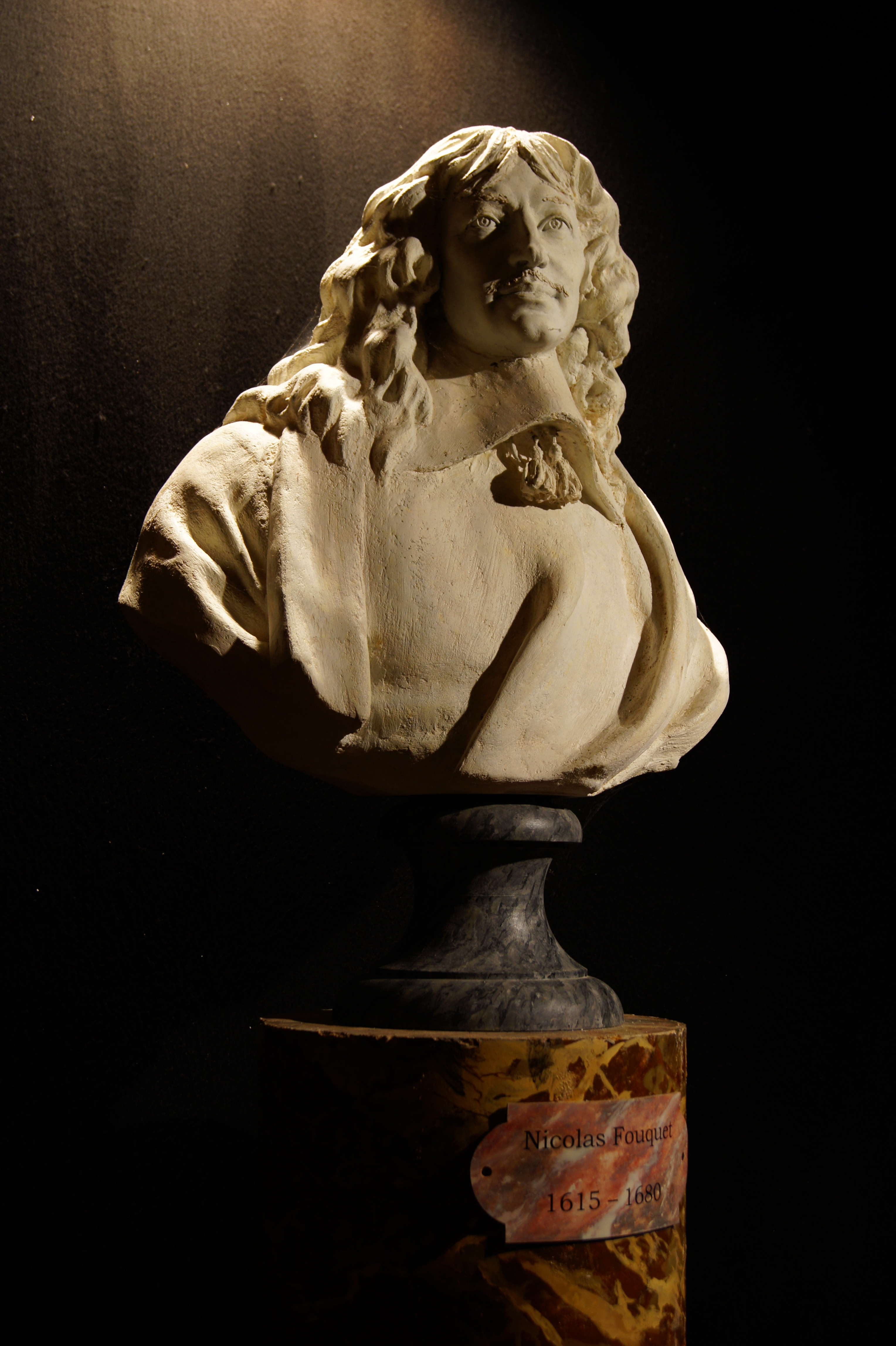 A bust of Nicolas Fouquet, Surintendant of the Finances of Louis XIV, Château de Vaux le Vicomte, France